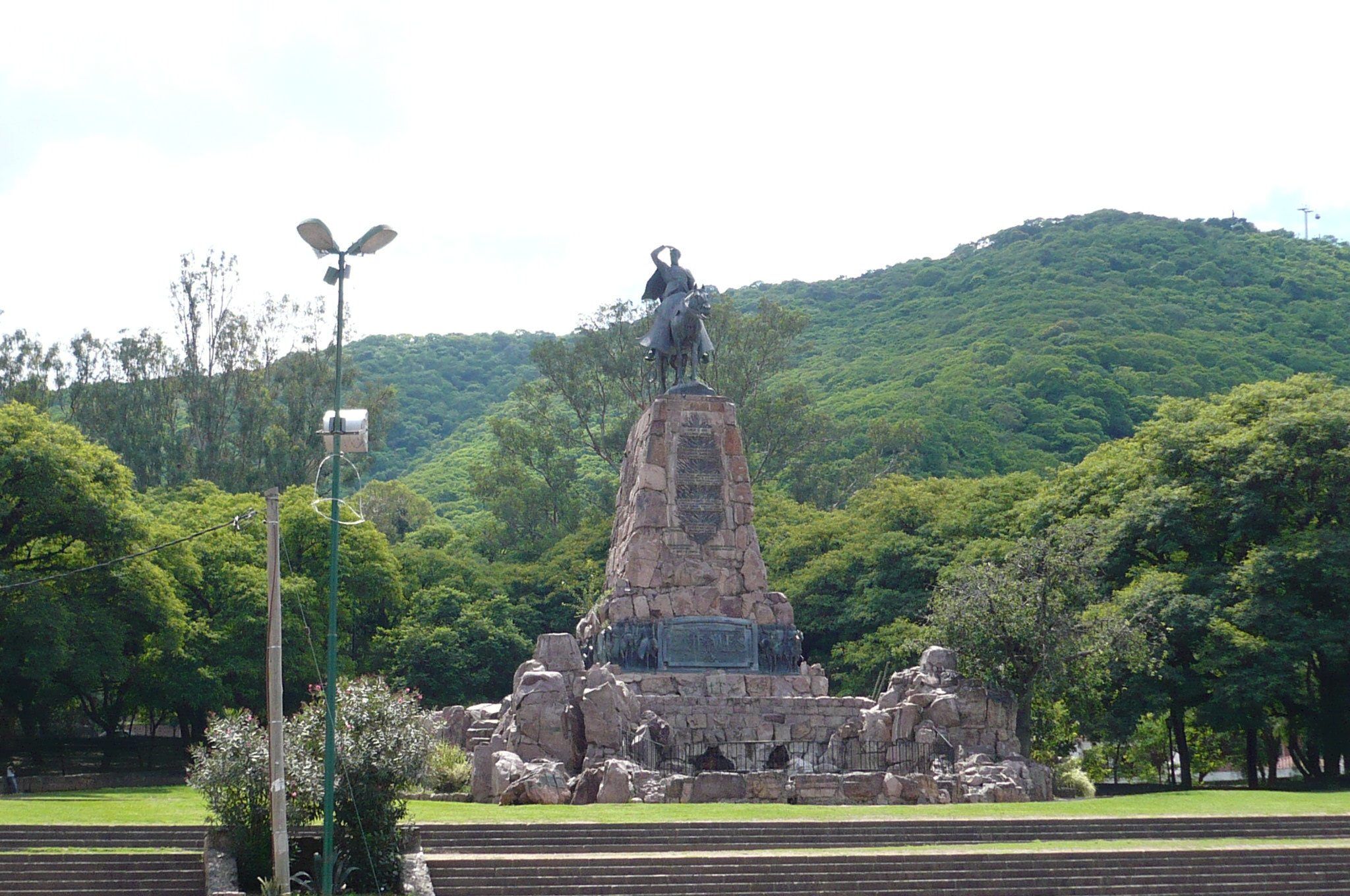 Monument to General Martín Miguel de Güemes. Salta, Argentina.